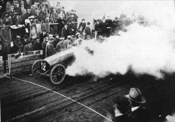 Albert Clement in a Clement-Bayard_at_the_1905_Vanderbilt_Cup an 80-hp Clement-Bayard (France #12) was driven by Albert Clement. Watermarked, low resolution image is publicly available COURTESY OF THE HELCK FAMILY COLLECTION, the original copyright holder at Vanderbilt Cup Races, Westbury, Clement-Bayard The image is now assumed to be public domain because it is over 100 years old.